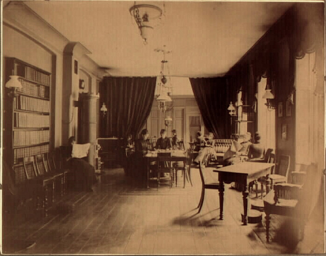 Kvindelig Læseforening, Amagertorv 8, Kbh. Foto Mary Steen, tilhører Det Kongelige Bibliotek.